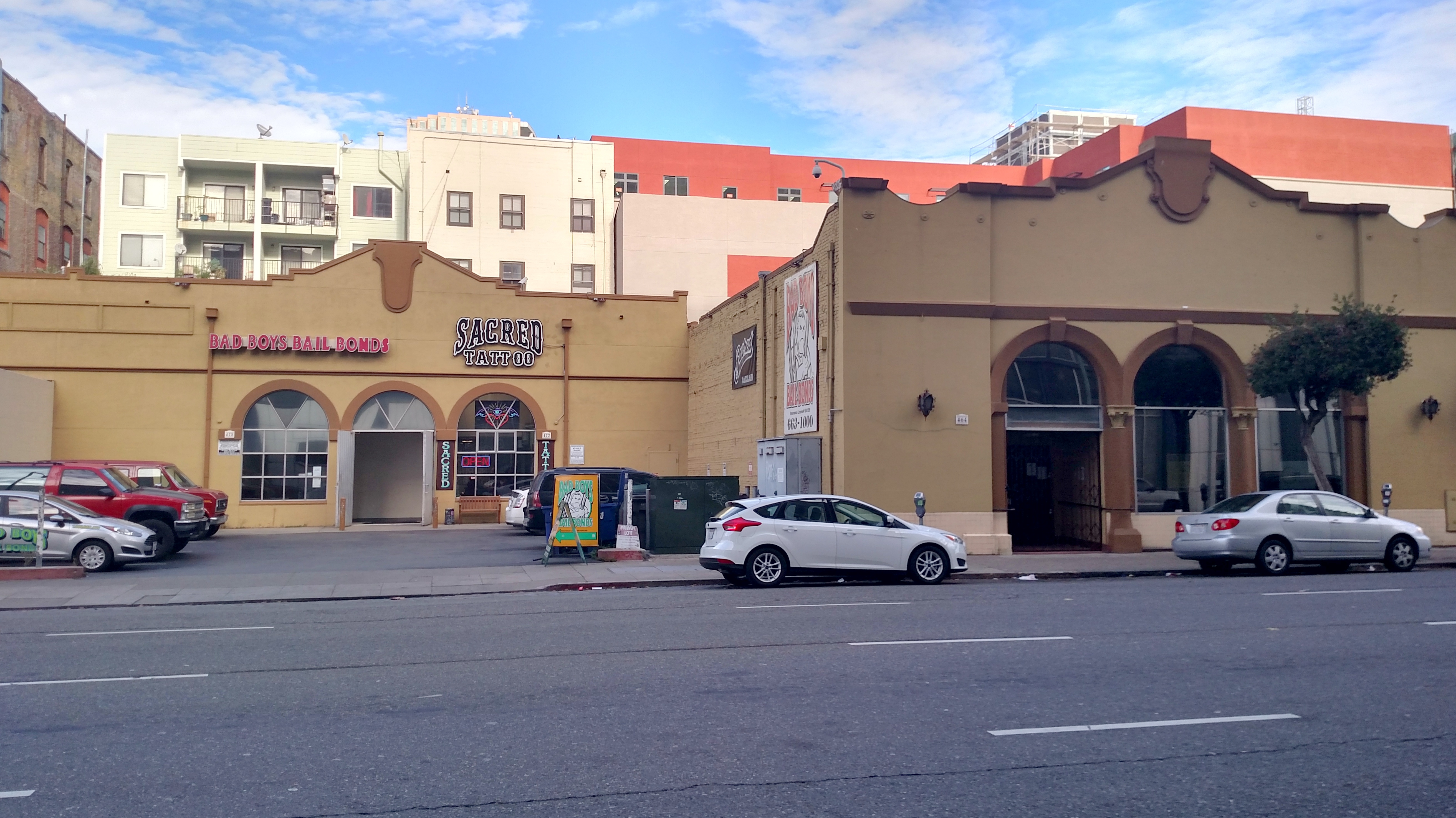 The former 7th Street station in Oakland in November 2017. The station was opened by the Central Pacific Railway in 1873. It served East Bay Electric trains until about 1939.